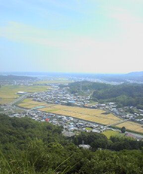 This is a photo of Kutsukake,Isobe Town,Shima City,Japan.